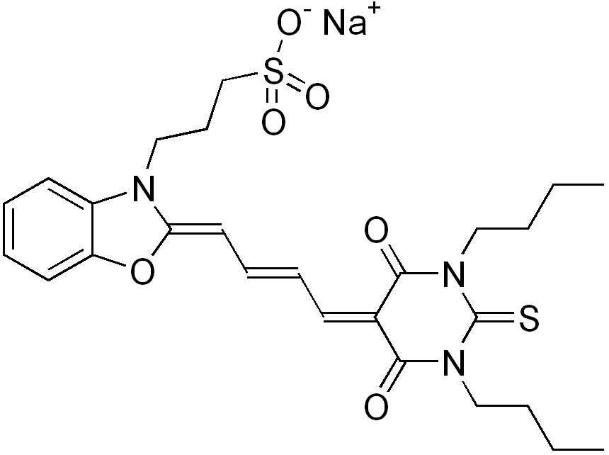 chemical structure of merocyanine 540